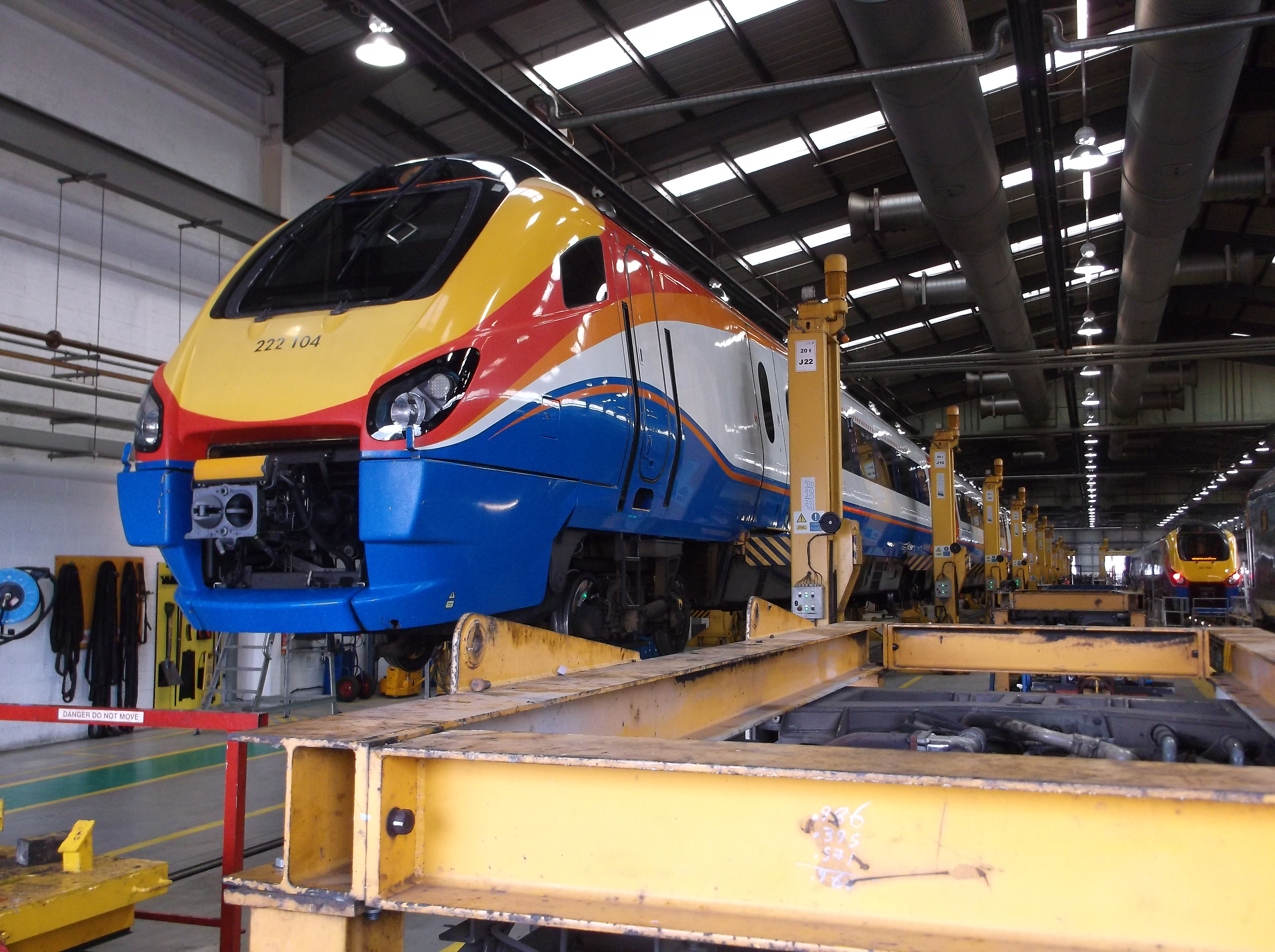 East Midlands Trains Class 222, 222104, at Derby Etches Park depot during an open day on 13 September 2014.